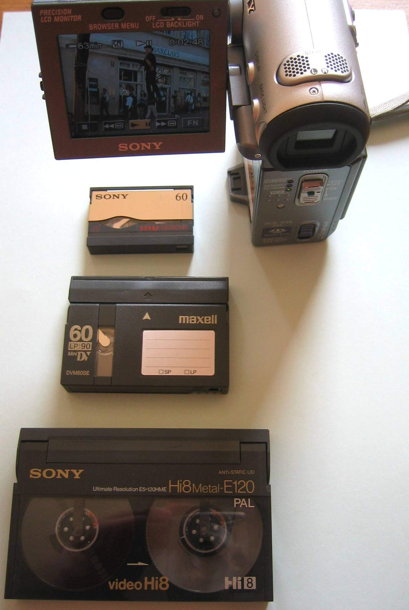 Shows Hi8 tape (front), miniDV tape, MICROMV tape and finally at the top a MICROMV camcorder.